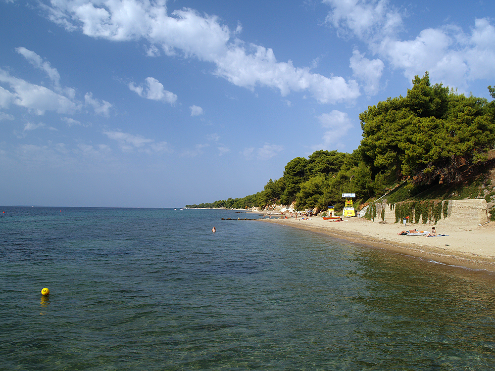 An Elia Akti beach, Greece, Sithonia